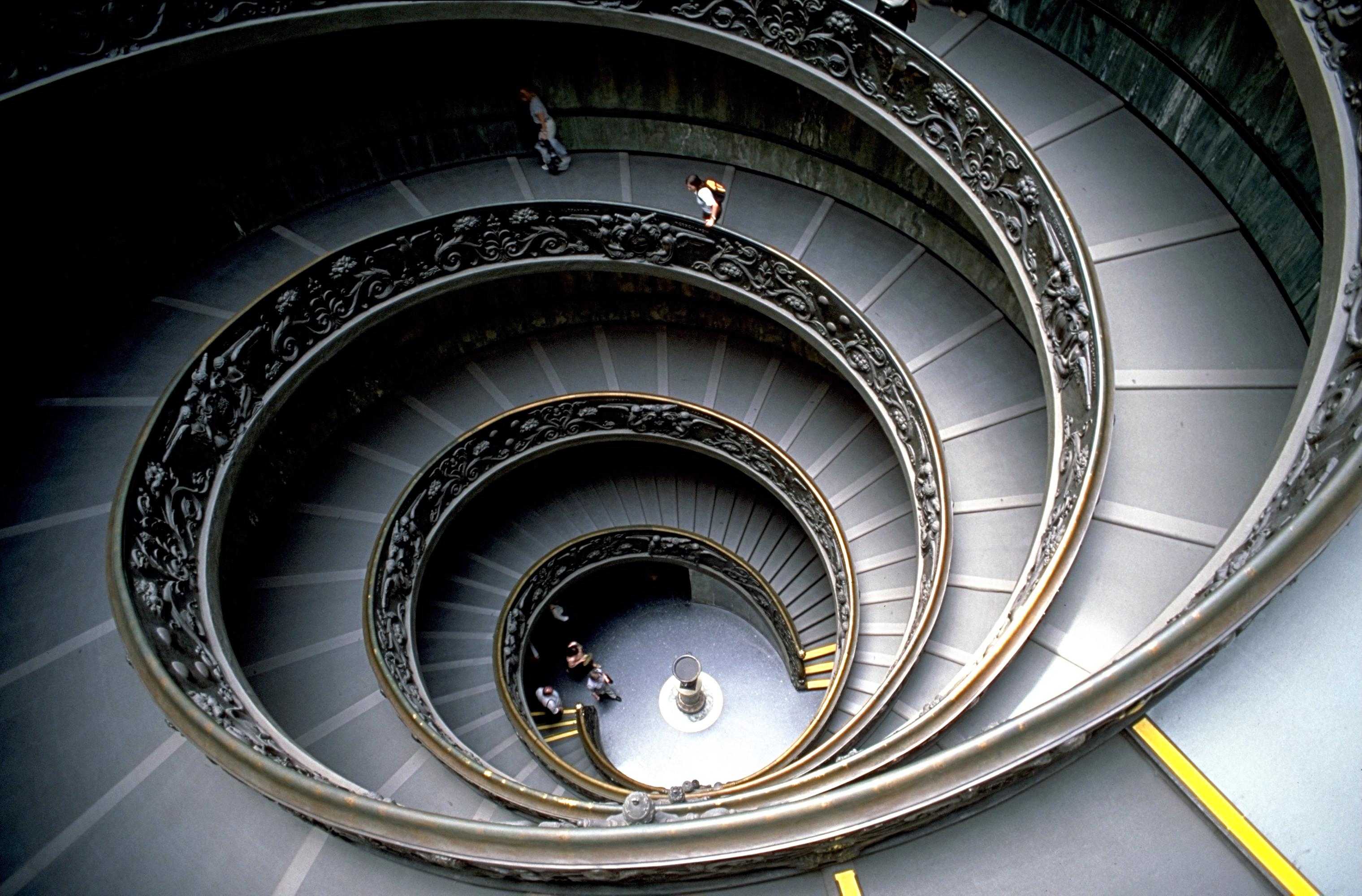 Staircase in Vatican Museum.